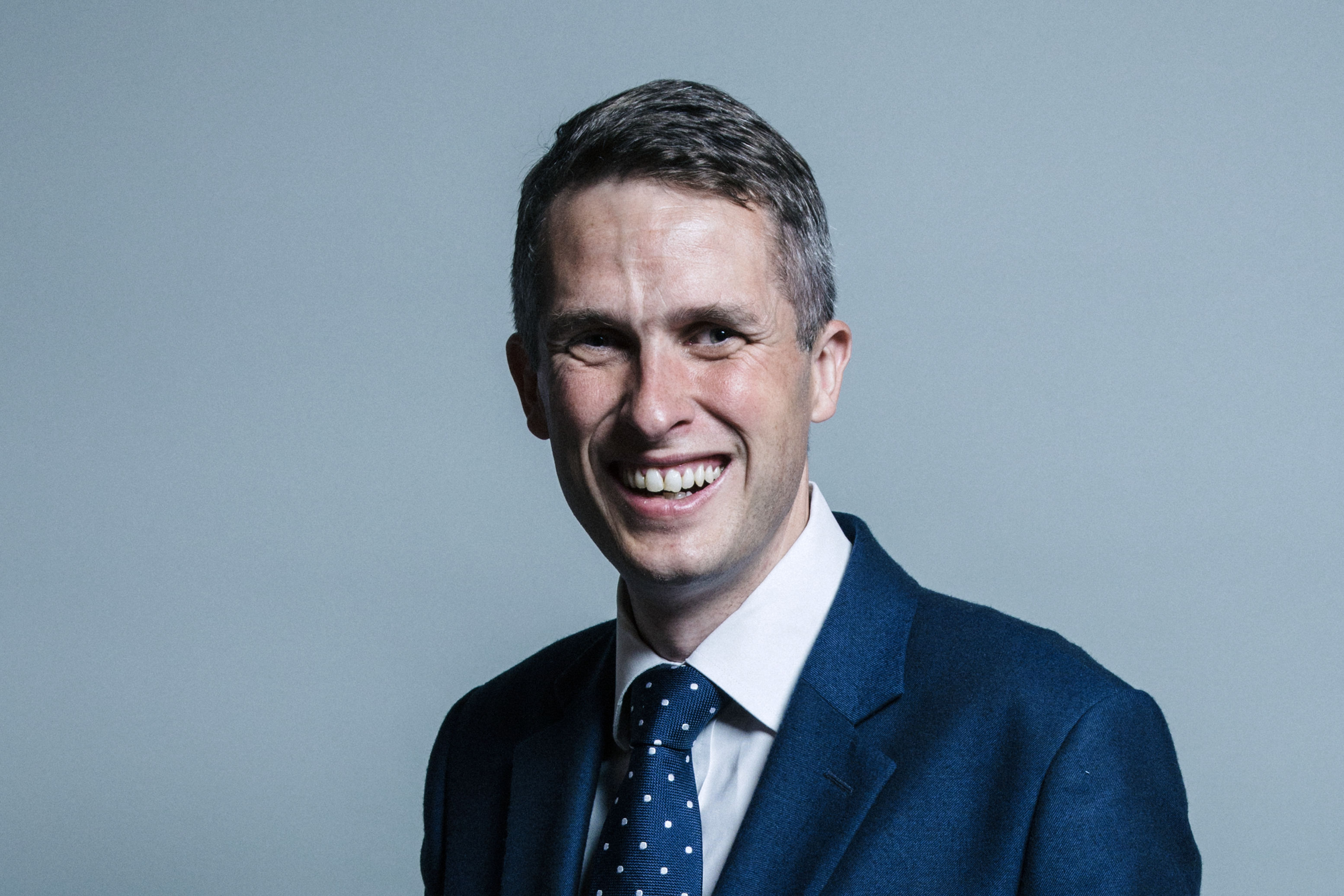 Official portrait of Gavin Williamson